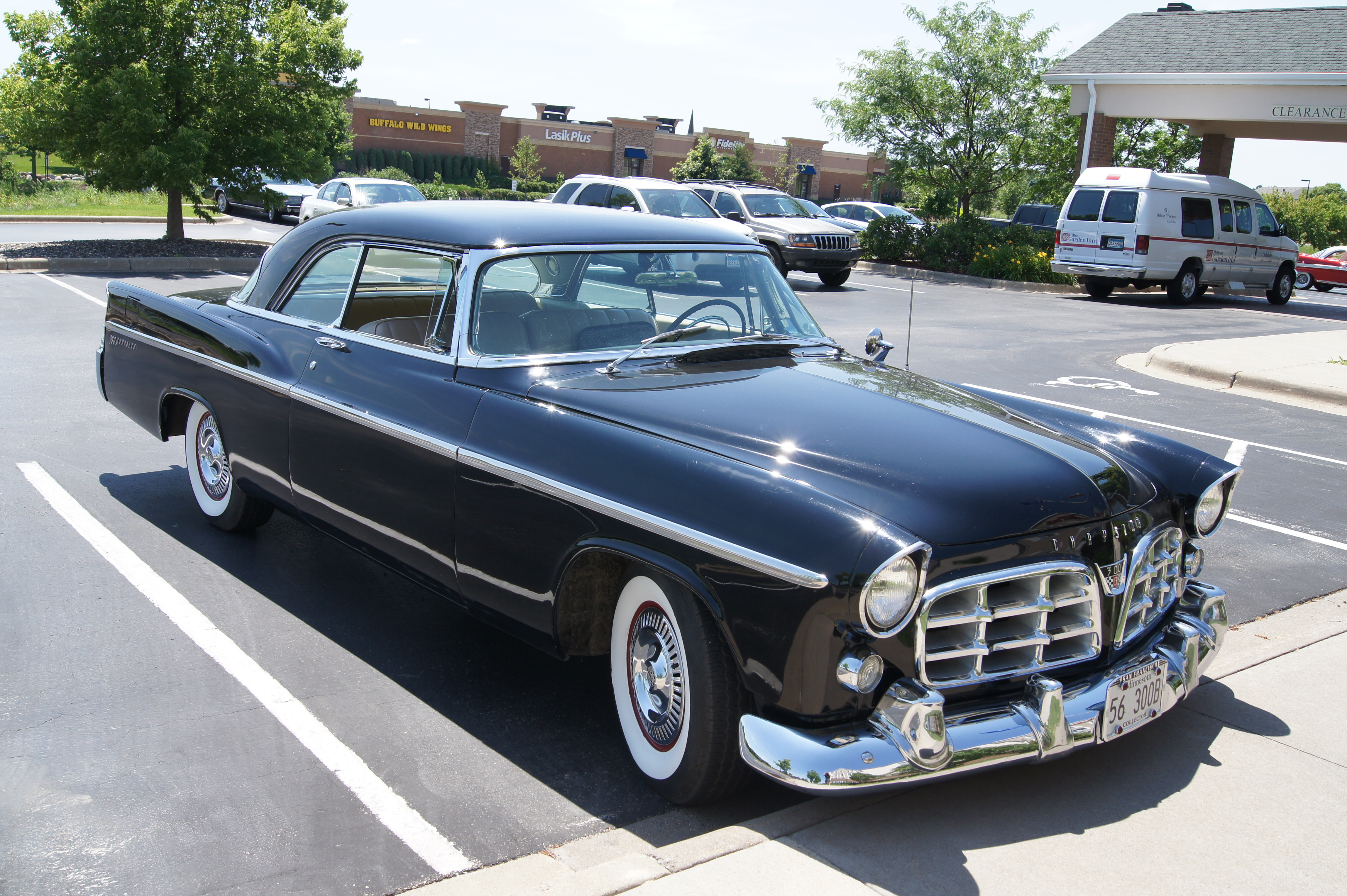 1st Combined Convention 28th Annual National DeSoto Club Convention & 44th Annual Walter P.Chrysler Club Convention July 17 - 21, 2013 Lake Elmo, Minnesota Click link below for more car pictures